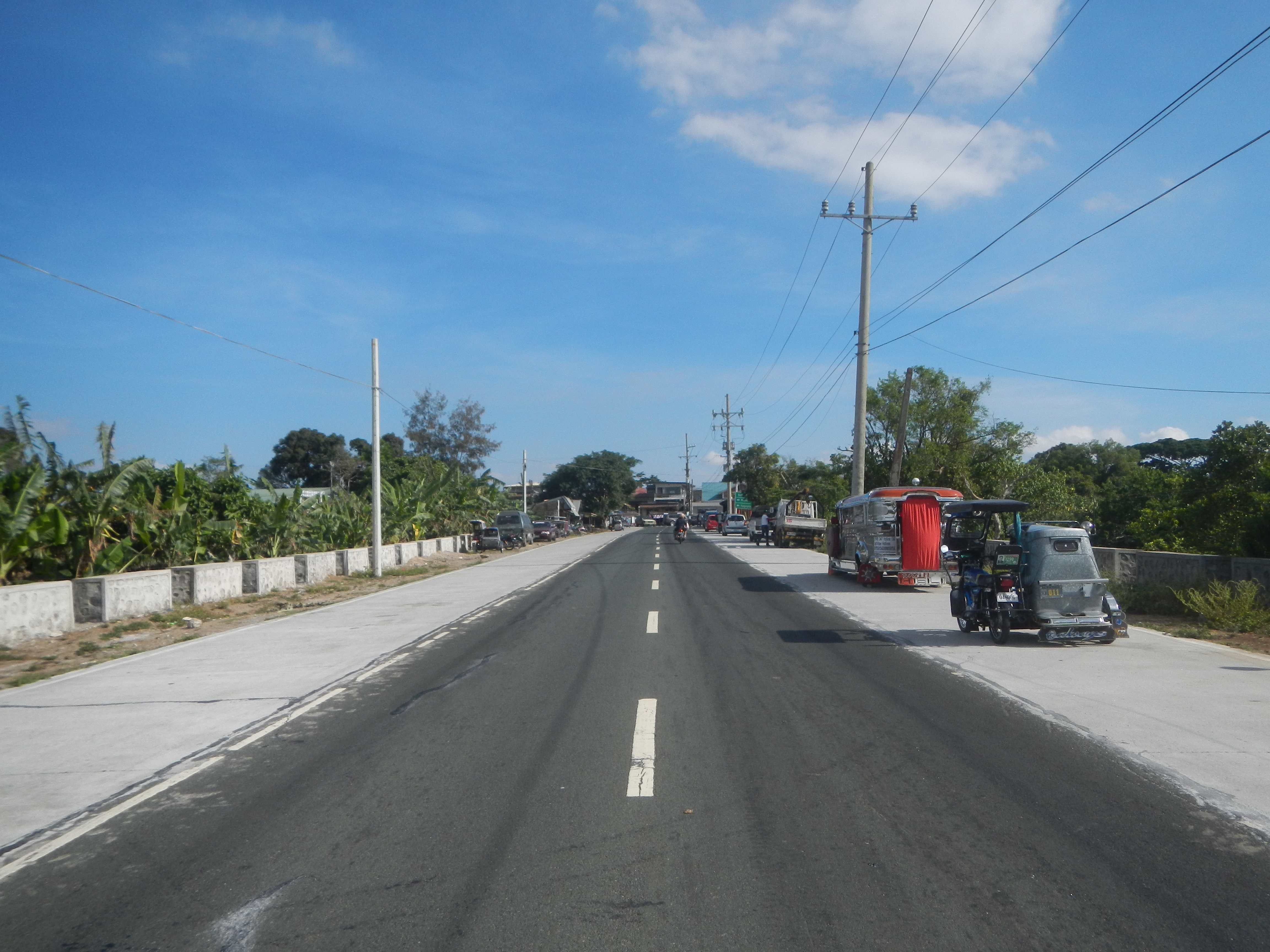 Amuyong, Alfonso, Cavite Grasslands in Alfonso, Cavite Skylines in Laurel, Batangas Dayap Itaas, Laurel, Batangas Twin Lakes Hotel Robinsons Supermarket Buck Estate, Alfonso, Cavite Amuyong–Kaytitingga Road Tagaytay–Nasugbu Highway Magallanes, Cavite along Maragondon–Magallanes–Amuyong Road Alfonso-Magallanes Road Category:Barangays of Cavite Barangays Kaytitinga I, II & III, Alfonso, Cavite 14.0987, 120.8360 Amuyong, Alfonso, Cavite 14.0776, 120.8481 Alfonso, Cavite bounded by Category:Barangays of Cavite Barangay Dayap Itaas, Laurel, Batangas Laurel, Batangas Philippine highway network (Note: Judge Florentino Floro, the owner, to repeat, Donor Florentino Floro of all these photos hereby donate gratuitously, freely and unconditionally Judge Floro all these photos to and for Wikimedia Commons, exclusively, for public use of the public domain, and again without any condition whatsoever).